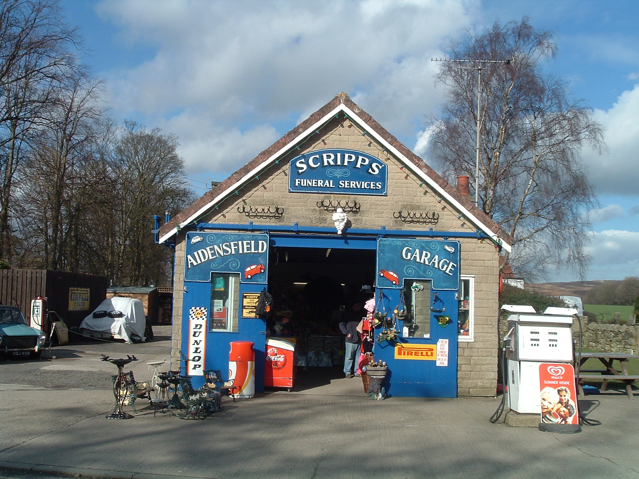 Petrol station, Goathland, UK